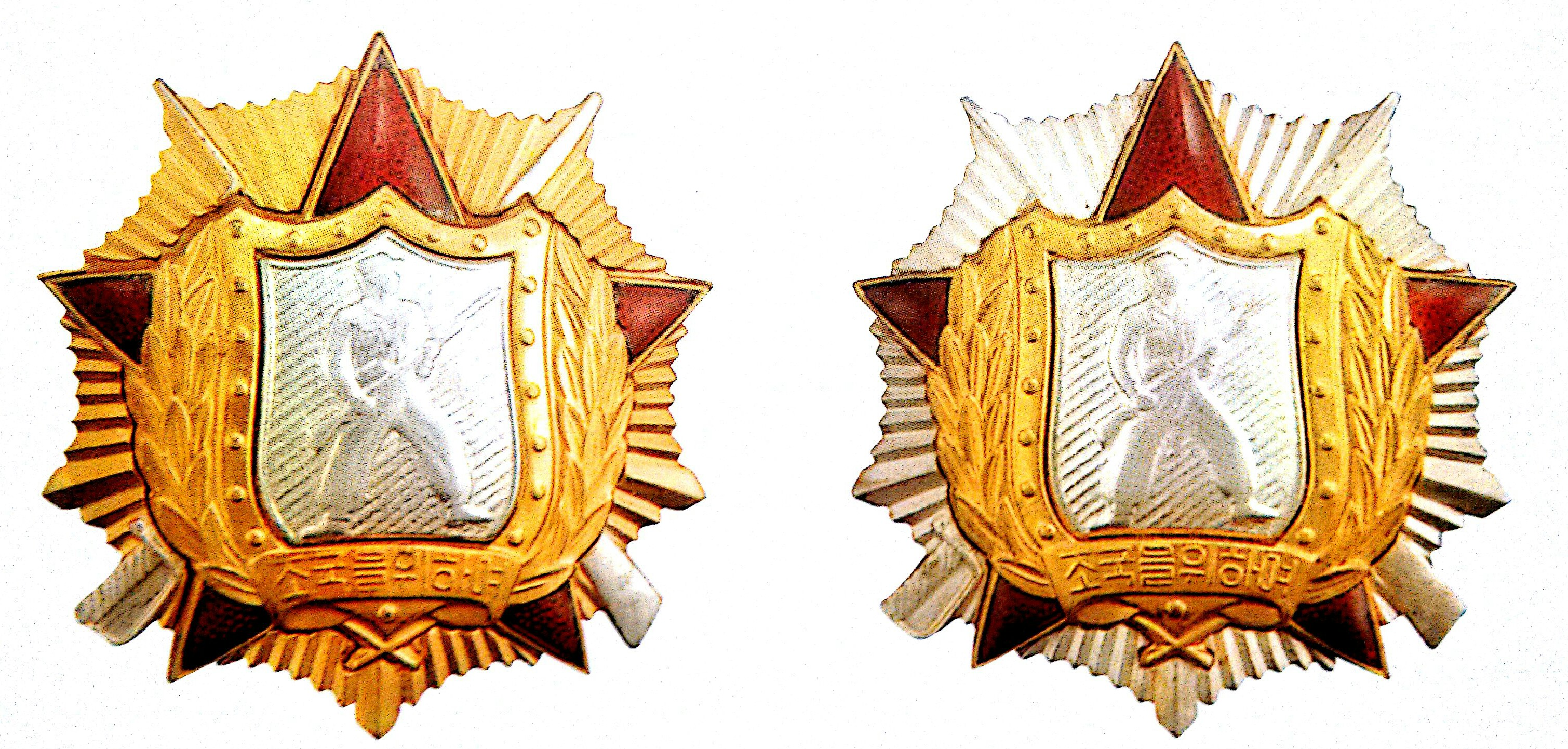 Order of Soldier's Honor 1st, 2nd class 조선말: 전사의 영예 훈장